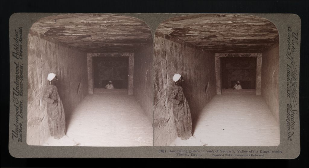 Man standing in passageway, another man in background